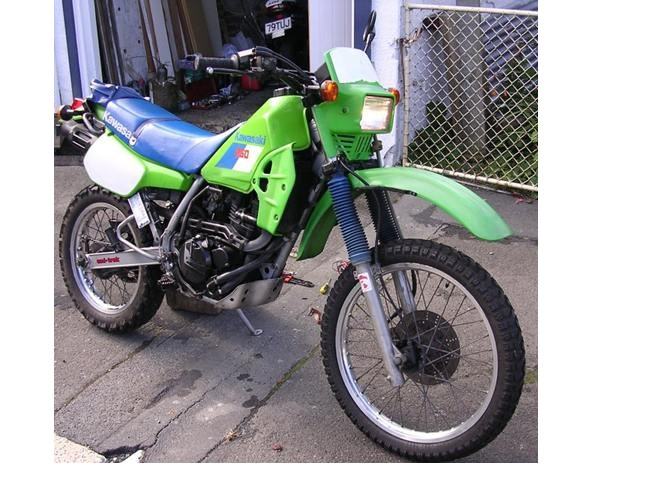 Farewell, oh pretty bike! 20 years in green and blue, now BLACK!